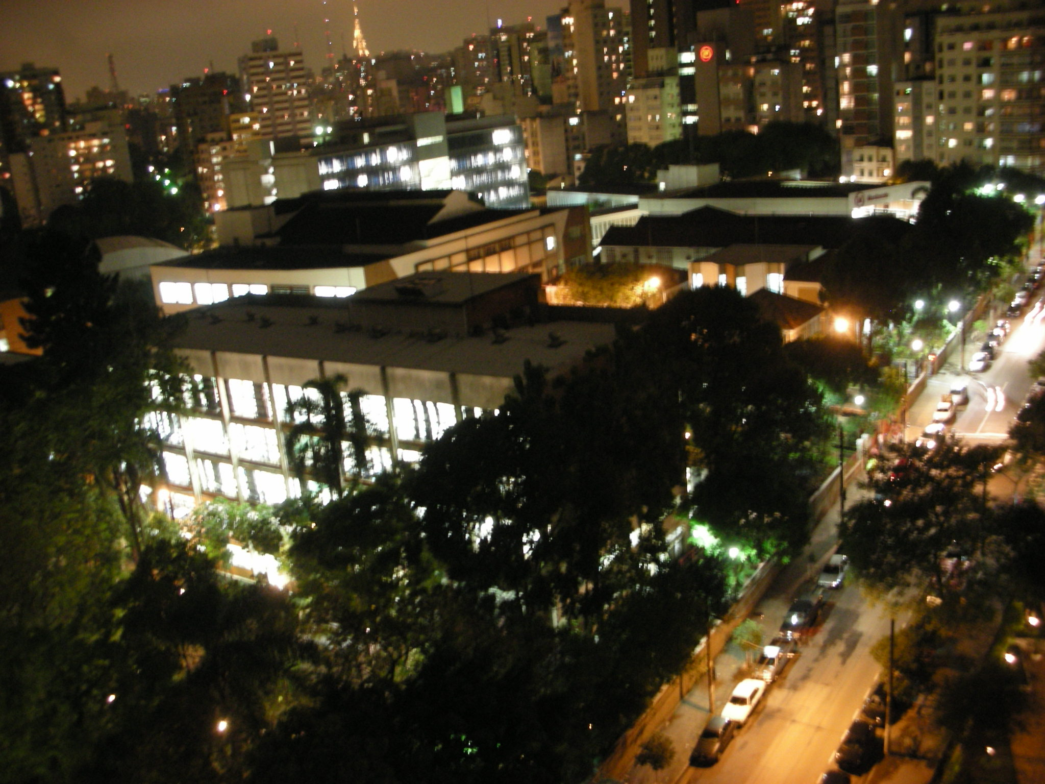 I am the author of this work. user:charlesblack Taken from Olympis Apartments, week of Nov. 26th, 2006